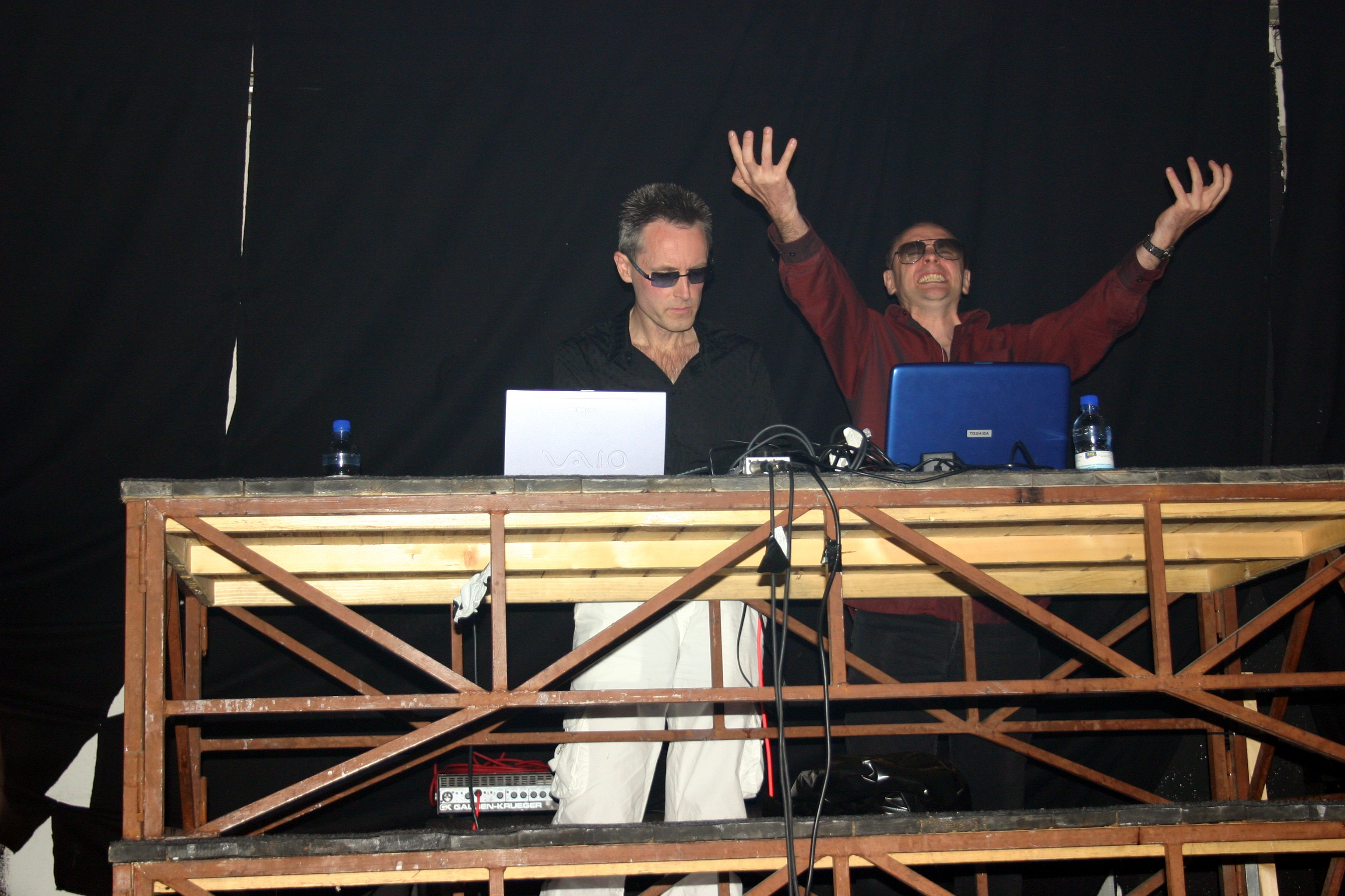 William Bennett and Philip Best performing live